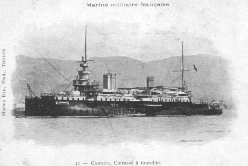 French battleship Carnot